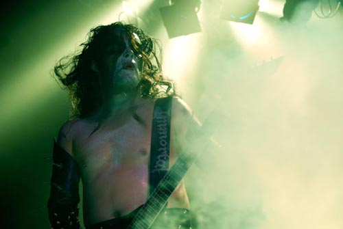 Immortal, live at Hole In The Sky, Bergen Metal Fest 2007